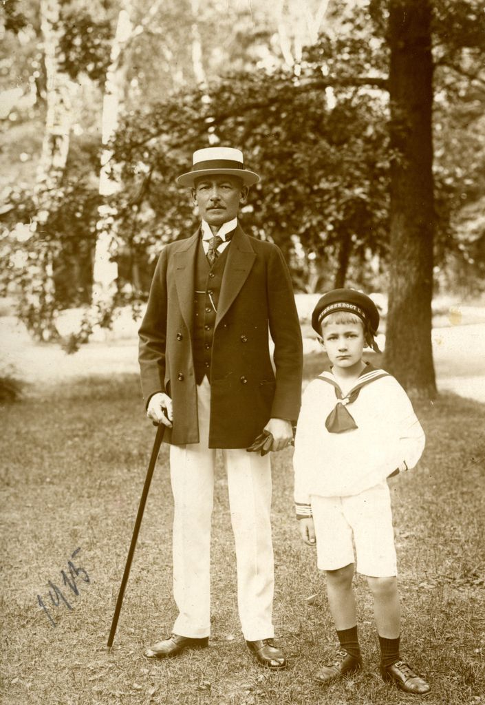 Hubert Kessler with his father in Franzensbad